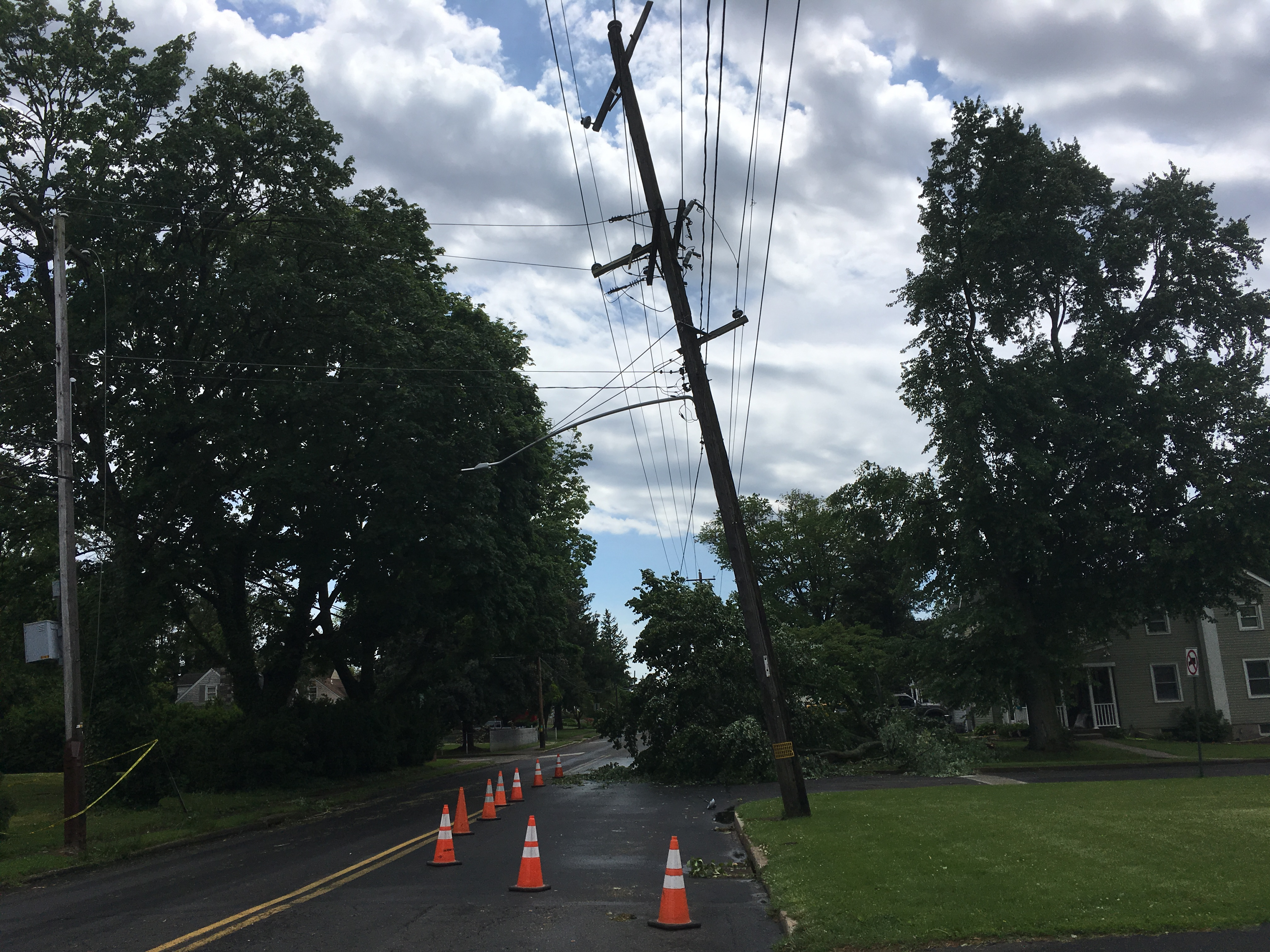 Downed tree branch and damaged power lines caused by a derecho along Warminster Road in Hatboro, Pennsylvania